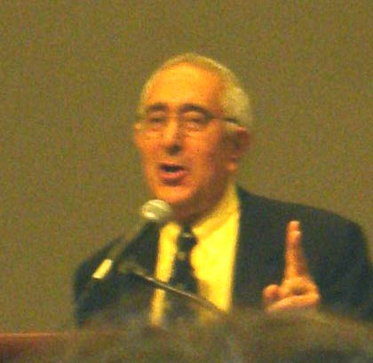 Ben Stein speaks to a crowd at UCSB.